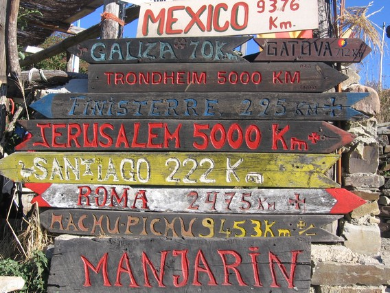 jerusalem sign on the camino de santiago